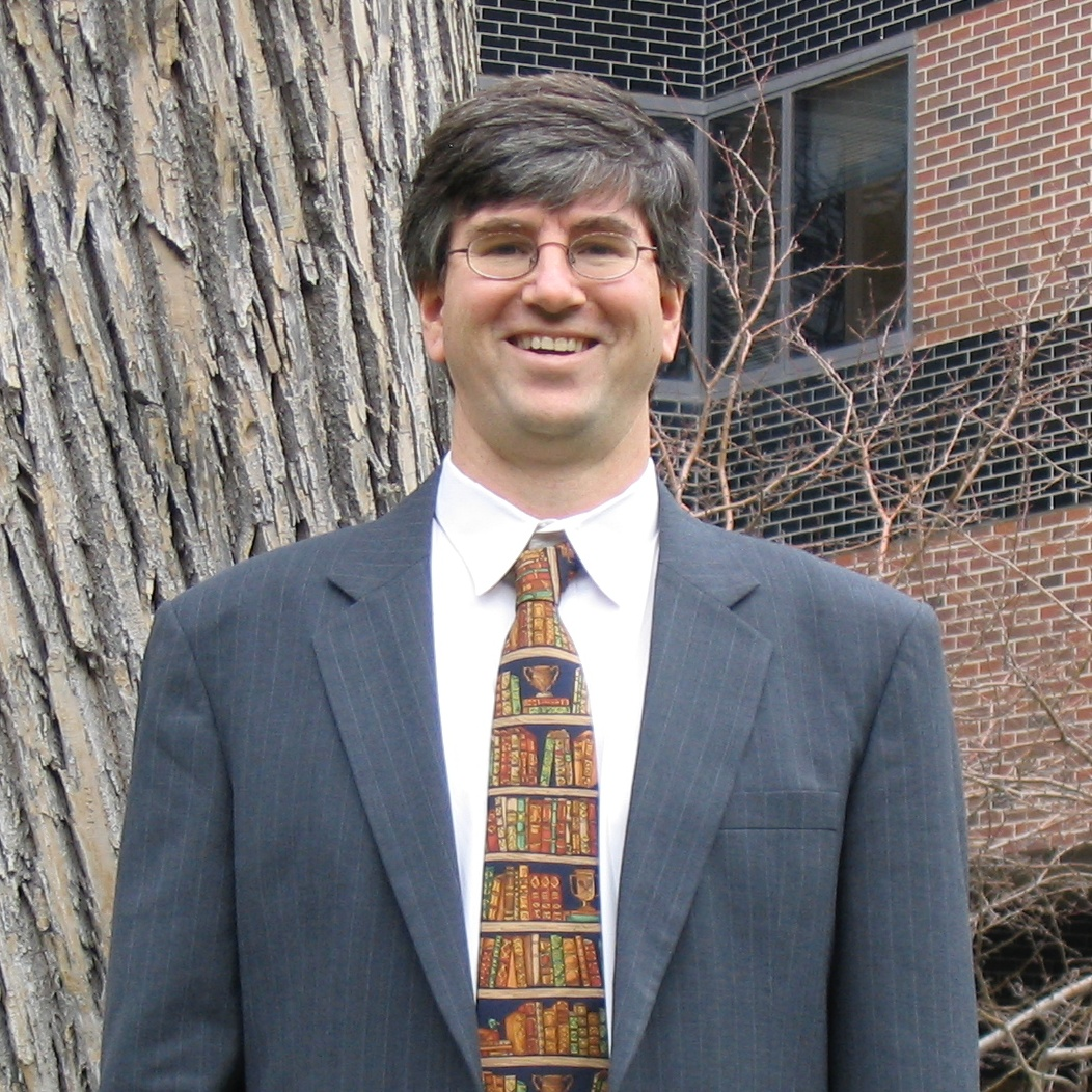 This is a photo I took of John Riedl on 11/15/2004 in the grassy area of the Institute of Technology at the University of Minnesota.